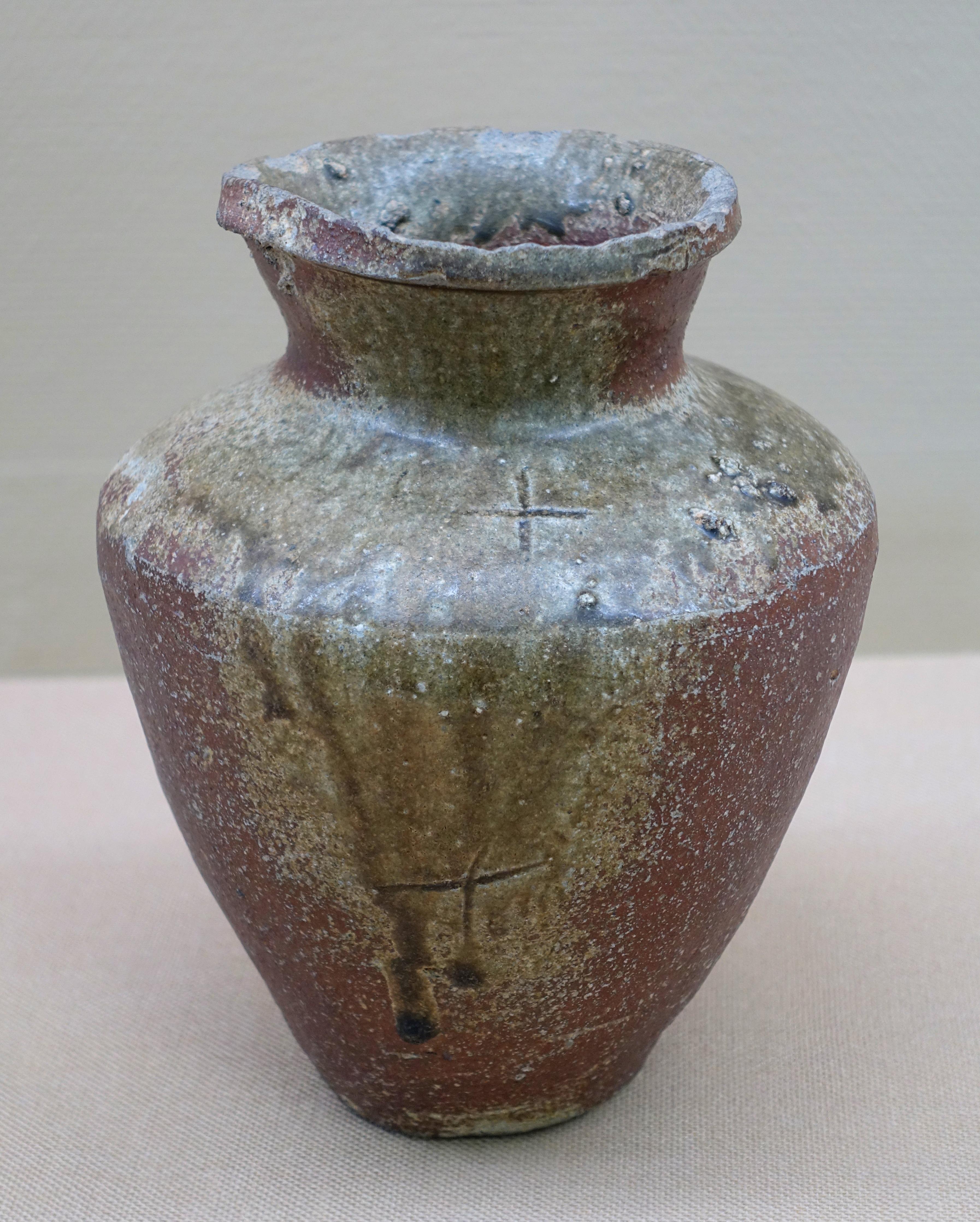 Exhibit in the Hakone Museum of Art - Hakone, Kanagawa, Japan.